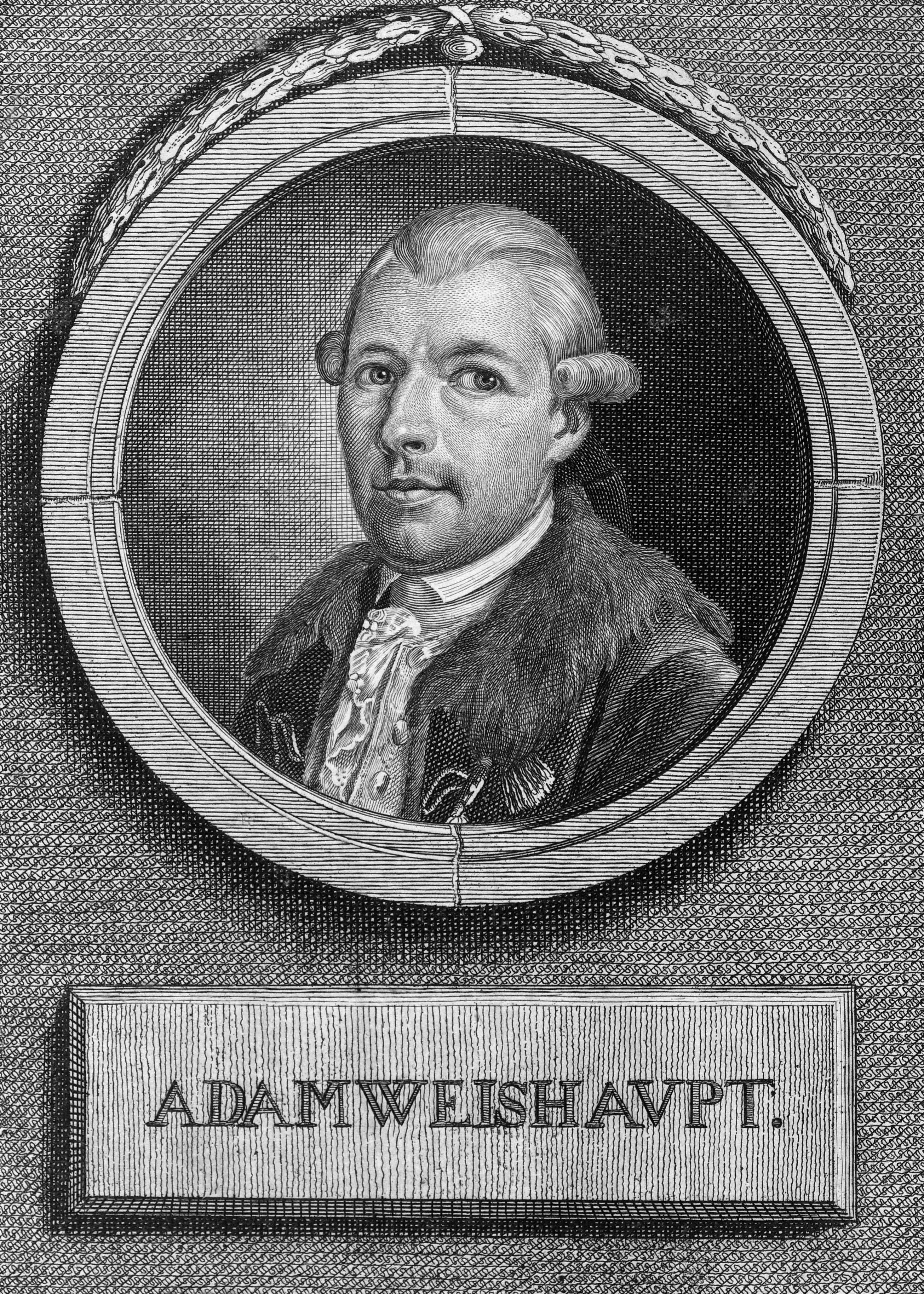 Depicted person: Adam Weishaupt